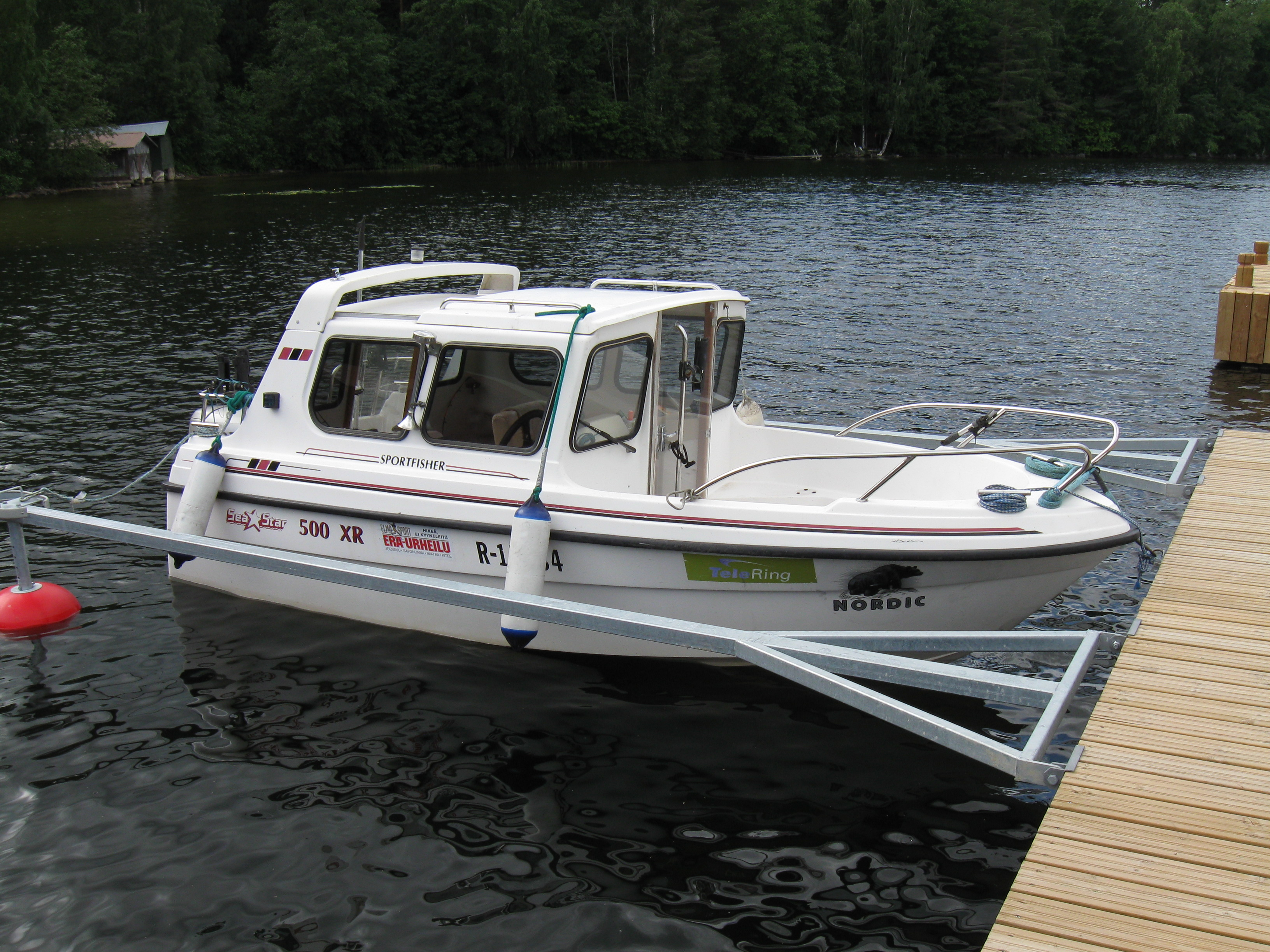 The Sea Star 500 XR boat made by the Finnish company Terhi Oy (TerhiTec Oy).